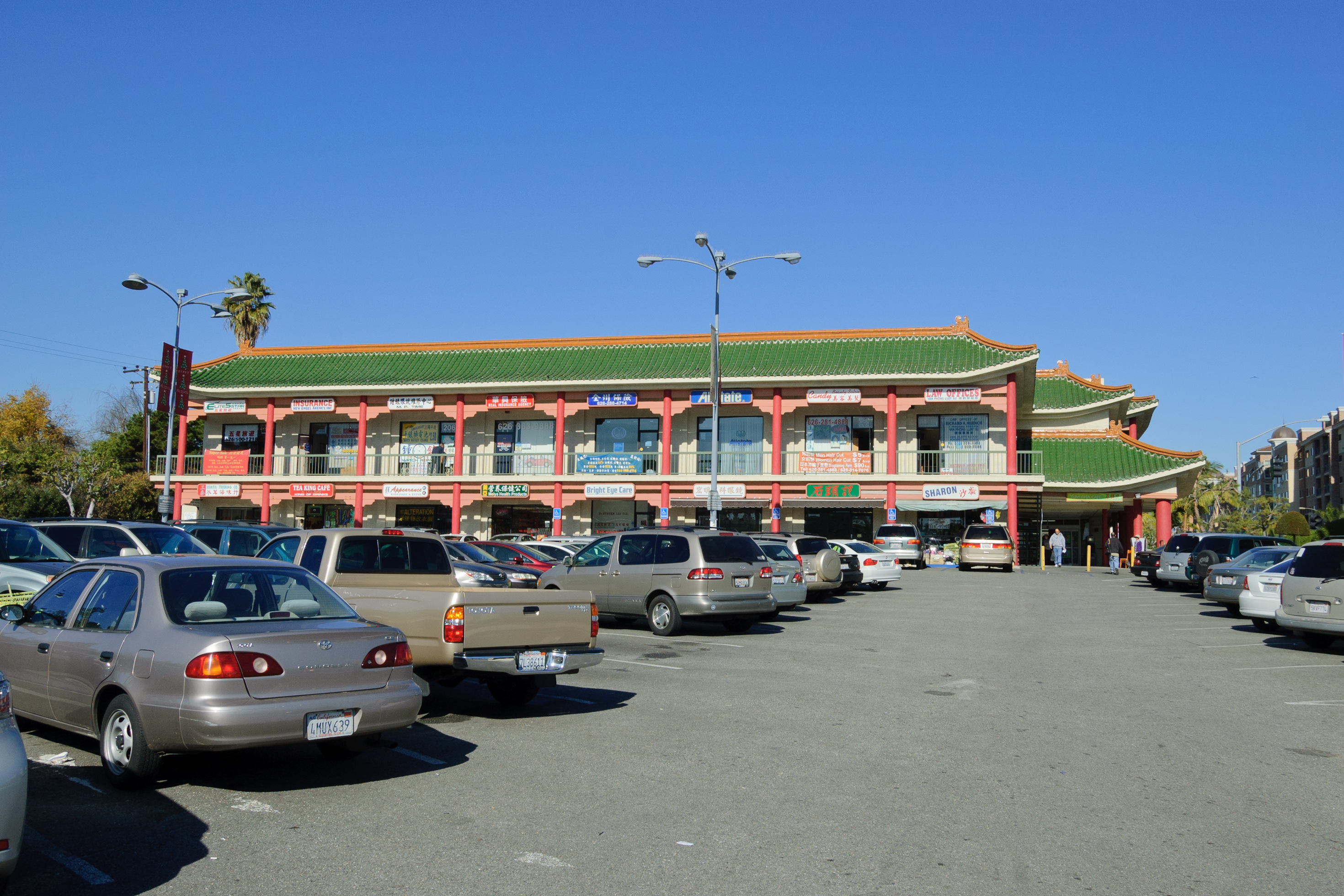 A shopping plaza containing Shun Fat Supermarket in Monterey Park, California.